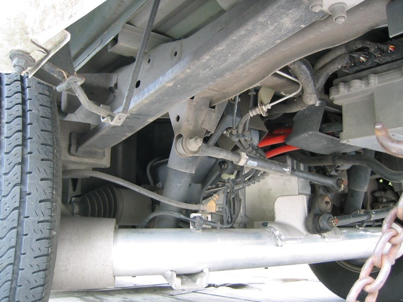 Ford Ranger EV - image by Geoff Shepherd, uploaded with permission by User:Leonard G., see Auston EV site and Geoff Shephard's Range EV Photo Album for source and other images.